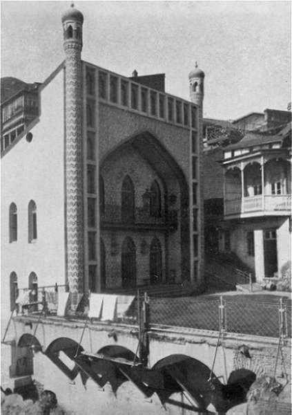 Orbeliani Baths, Abanotubani district, Tbilisi, Georgia.